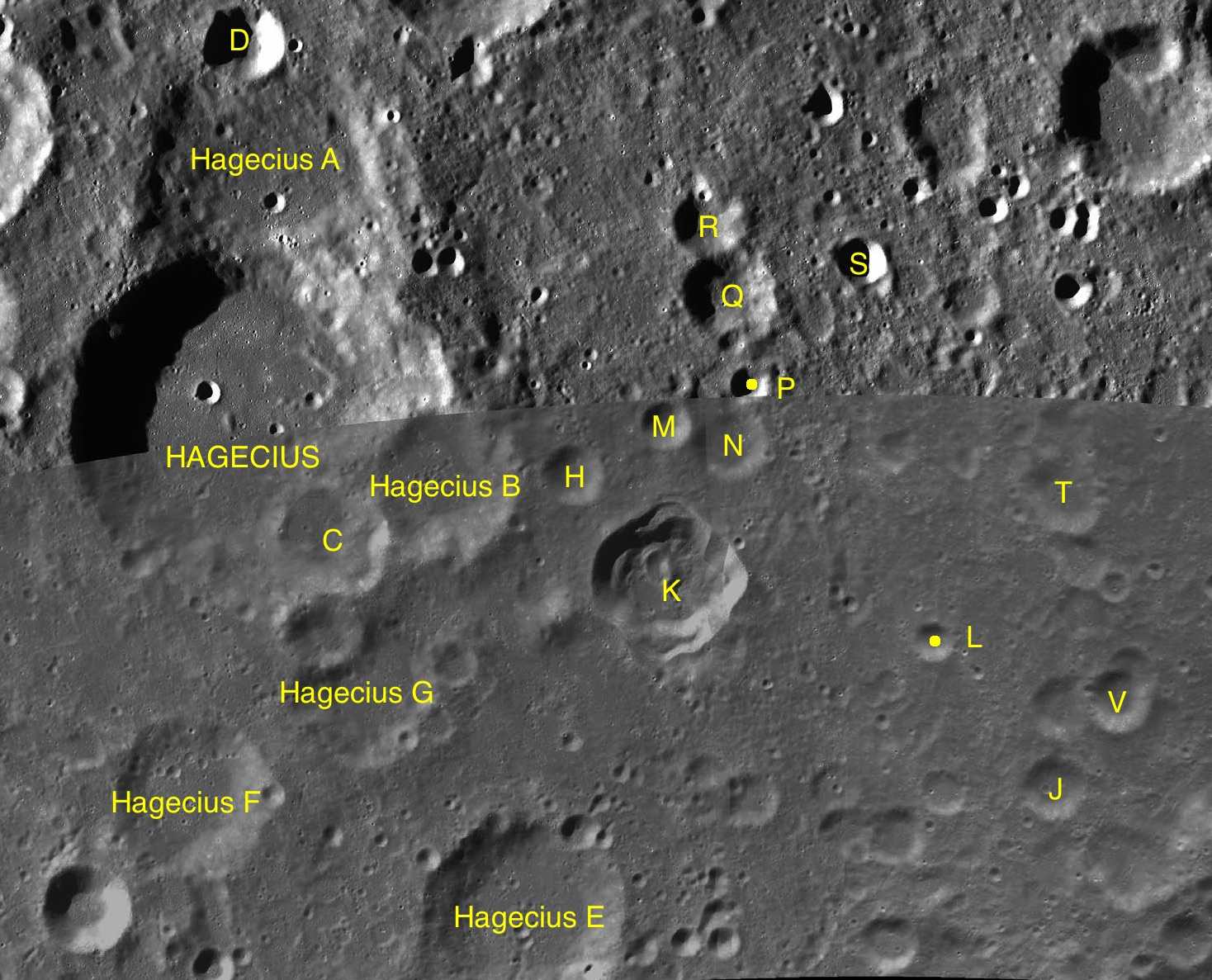 Part of the chart LAC-128